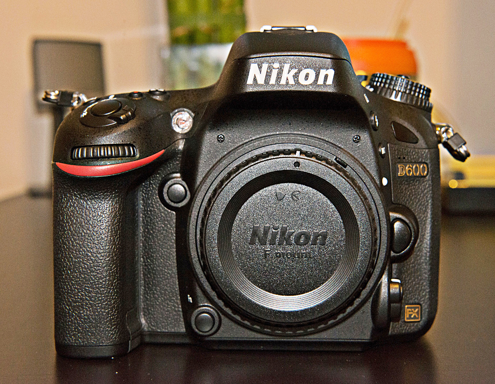 Front view of the Nikon D600 full frame DSLR.